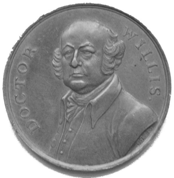 The front of the medal issued by Francis Willis to celebrate his 'cure' of King George III